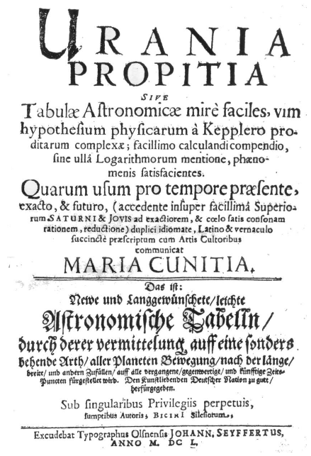 Frontispiece of Maria Cunitia (Maria Cunitz): Urania propitia sive Astronomicae Tabulae mirè faciles vim hypothesium physicarum à Kepplero proditarum complexae; facillimo calculandi compendio sine ulla Logarithmorum mentione, phaenomenis satisfacientes. Quarum usum pro tempore praesente, exacto, & futuro, (accedente insuper facillimâ Superiorum Saturni & Jovis ad exactiorem, & coelo satis consonam rationem, reductione) duplici idiomate, Latino & vernaculo succinctè praescriptum cum Artis Cultoribus communicat Maria Cunitia. Das isst Newe und langerwünschete / leichte Astronomische Tabelln / durch derer vermittelung, ..., Olsnen (Oleśnica, Lower Silesia, Poland), Johan Seyffertus, 1650